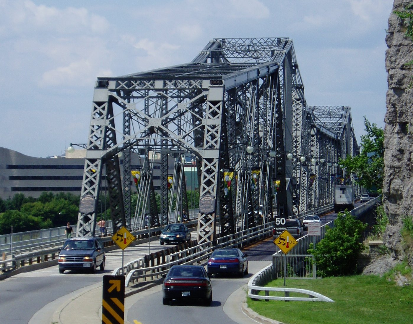 Alexandra Bridge, over Ottawa River, between Ottawa and Gatineau View from Ottawa